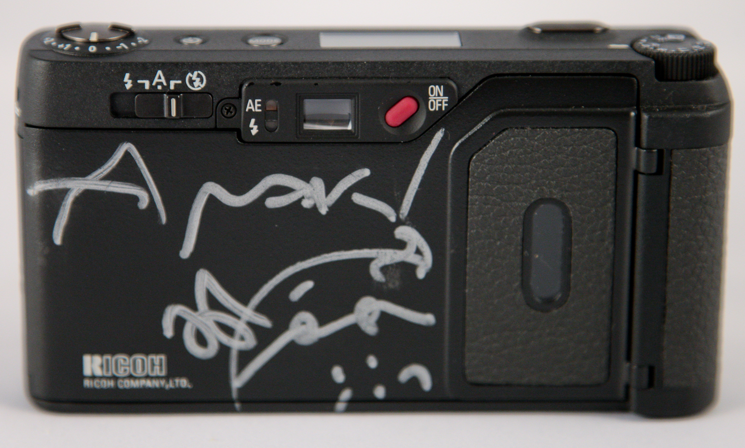 Private Collection - Ricoh GR1s signed by Nobuyoshi Araki